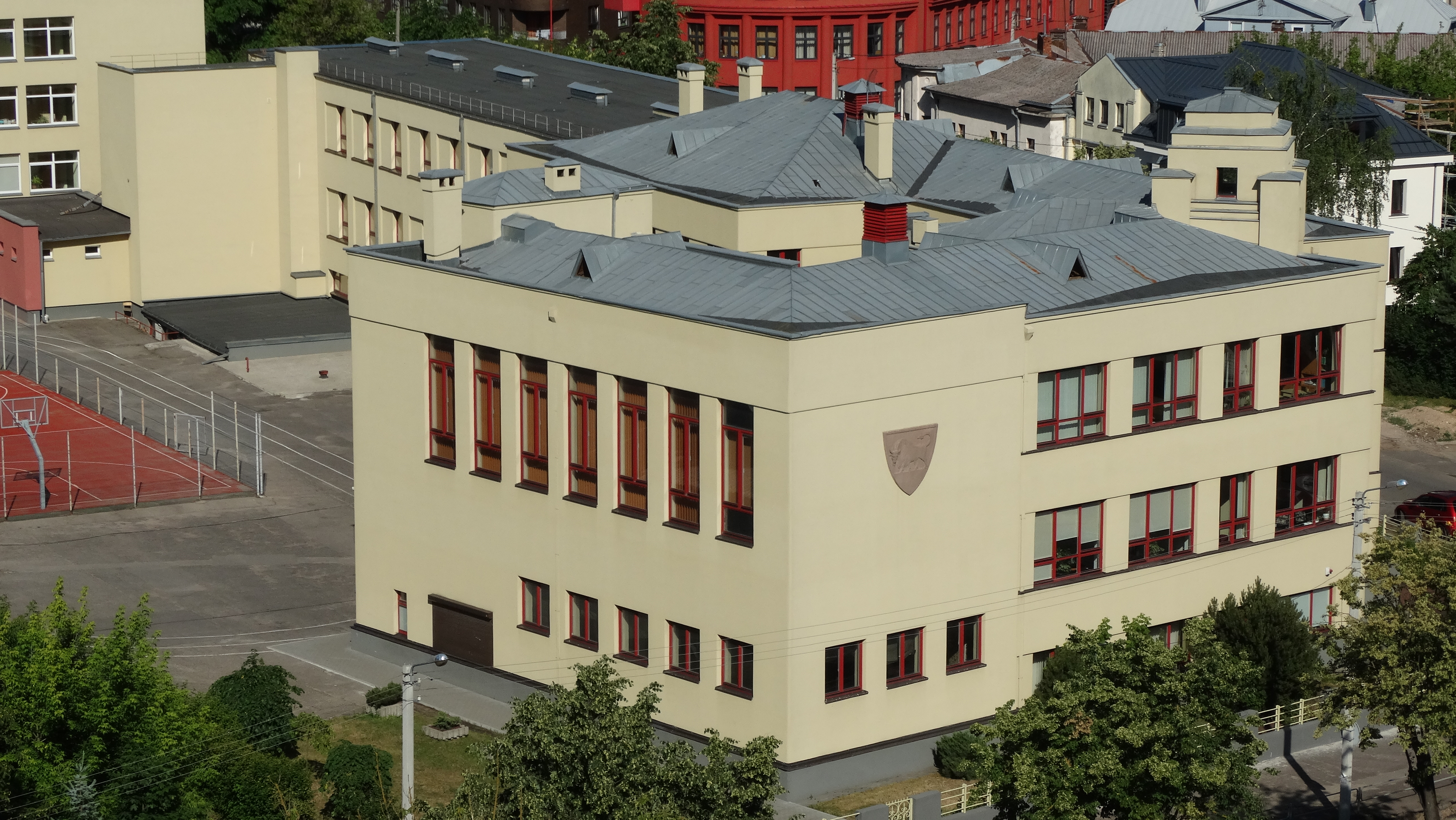 Jonas Jablonskis gymnasium, Kaunas, Lithuania